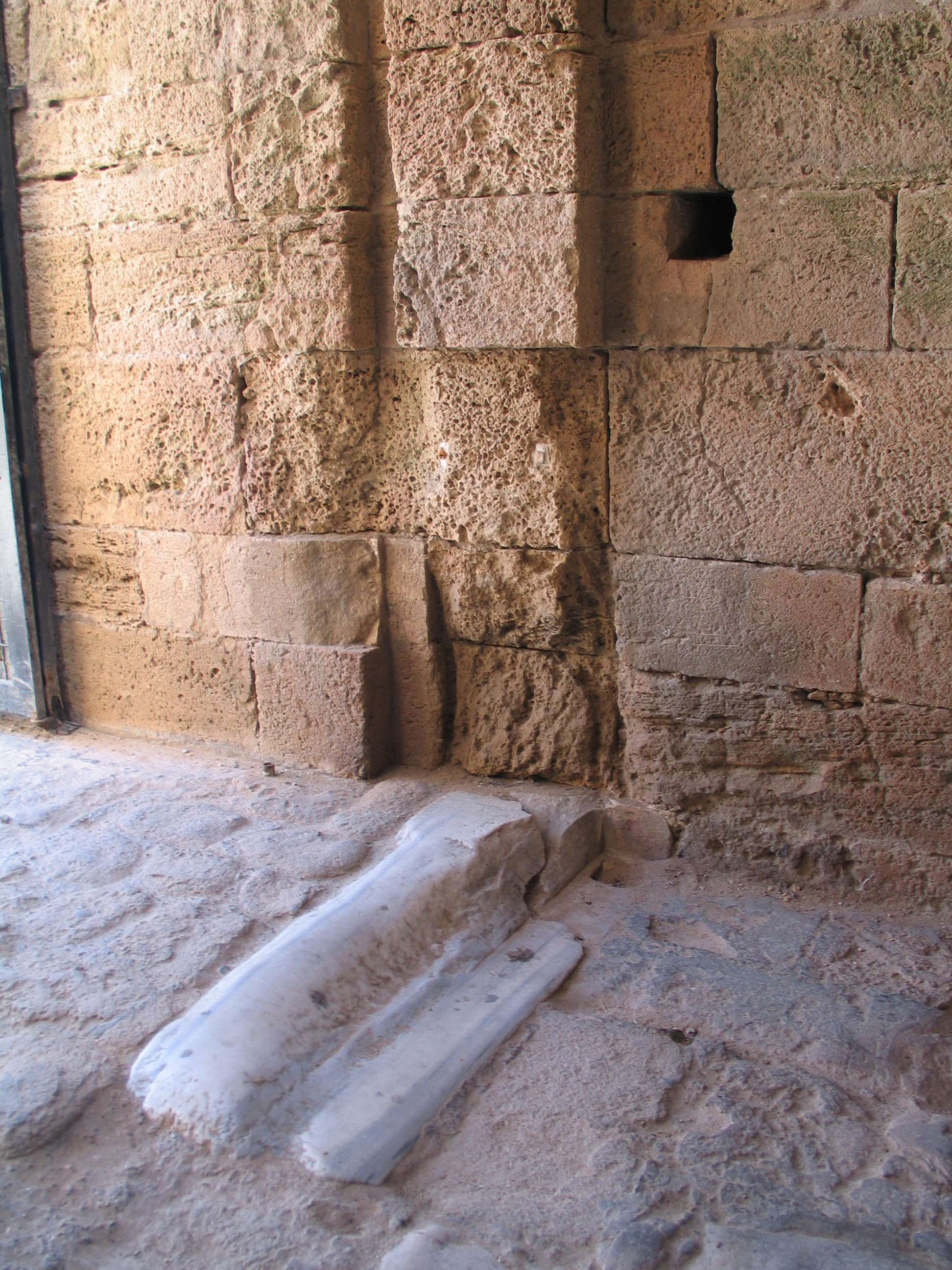 Caesarea Maritima, Israel. Eastern gate.